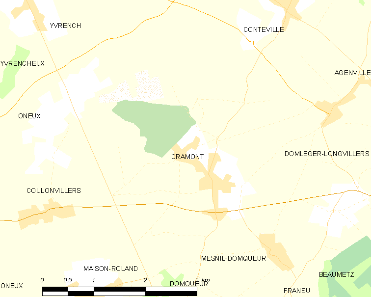 Map of French municipality Cramont